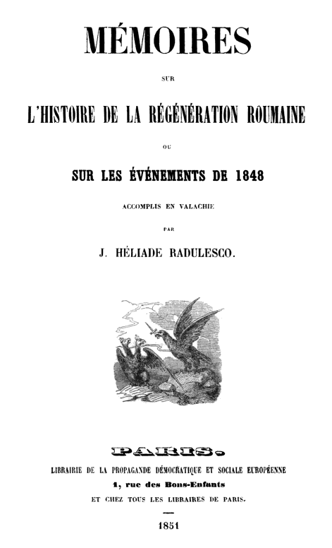 Ion Heliade Radulescu – Title page of Mémoire sur l’histoire de la Regéneration Roumaine ou sur les événements de 1848 accomplis en Valachie published by Librairie de la propagande démocratique et sociale européenne, Paris, 1851.